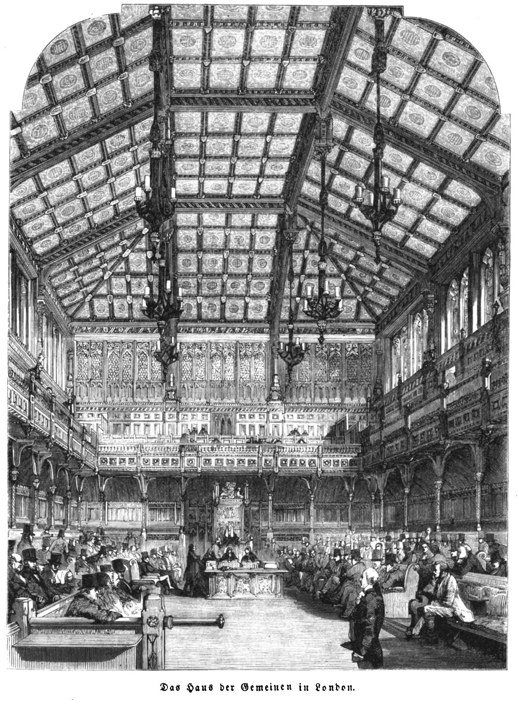 caption: "Das Haus der Gemeinen in London."